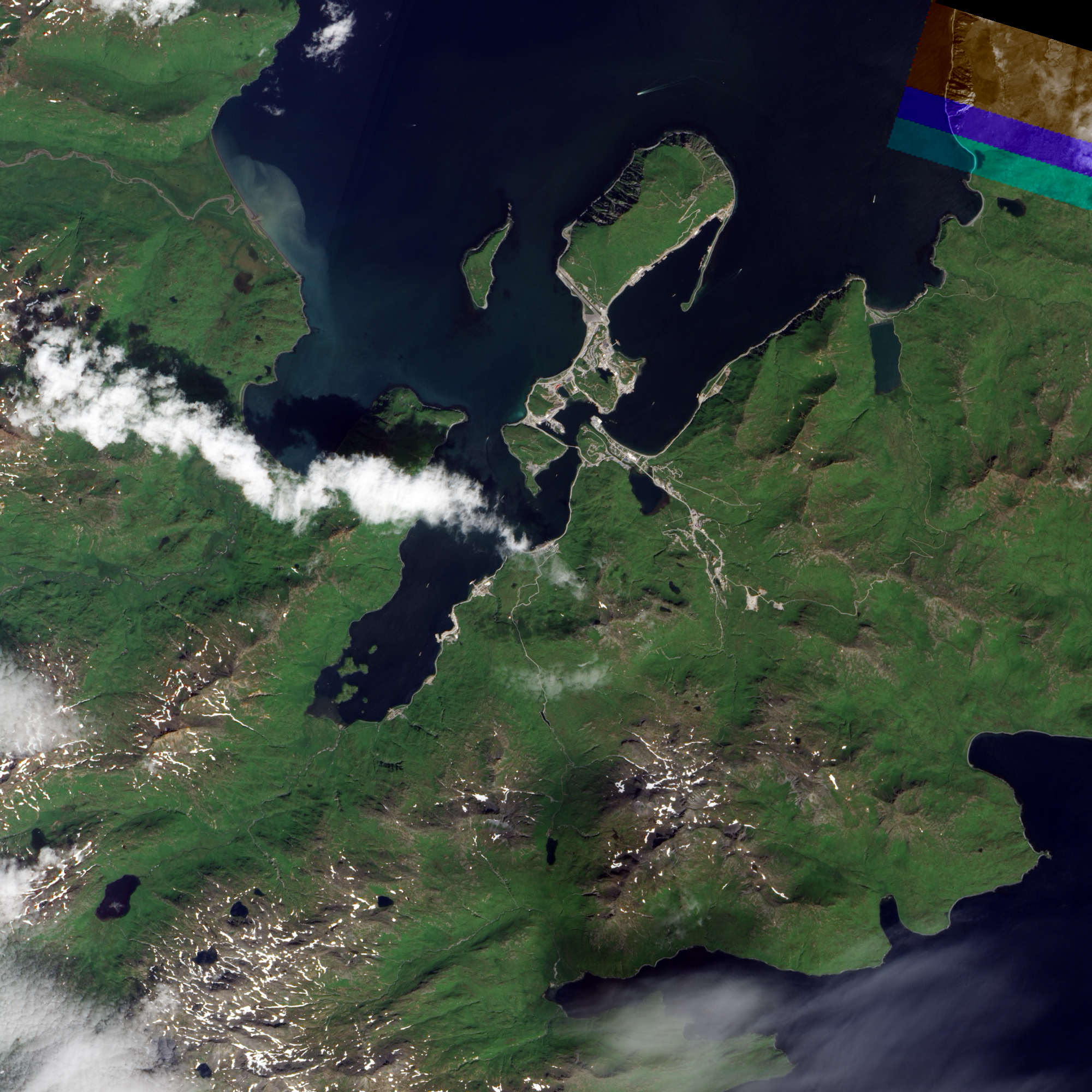 Natural-colour image of Dutch Harbor. The wakes of several ships are visible in the surrounding waters.